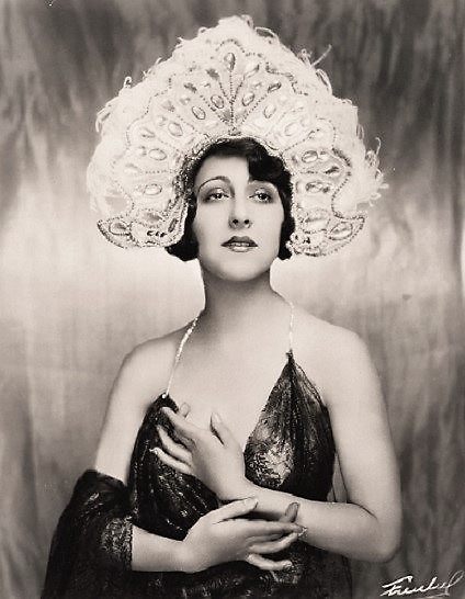 Patsy Ruth Miller